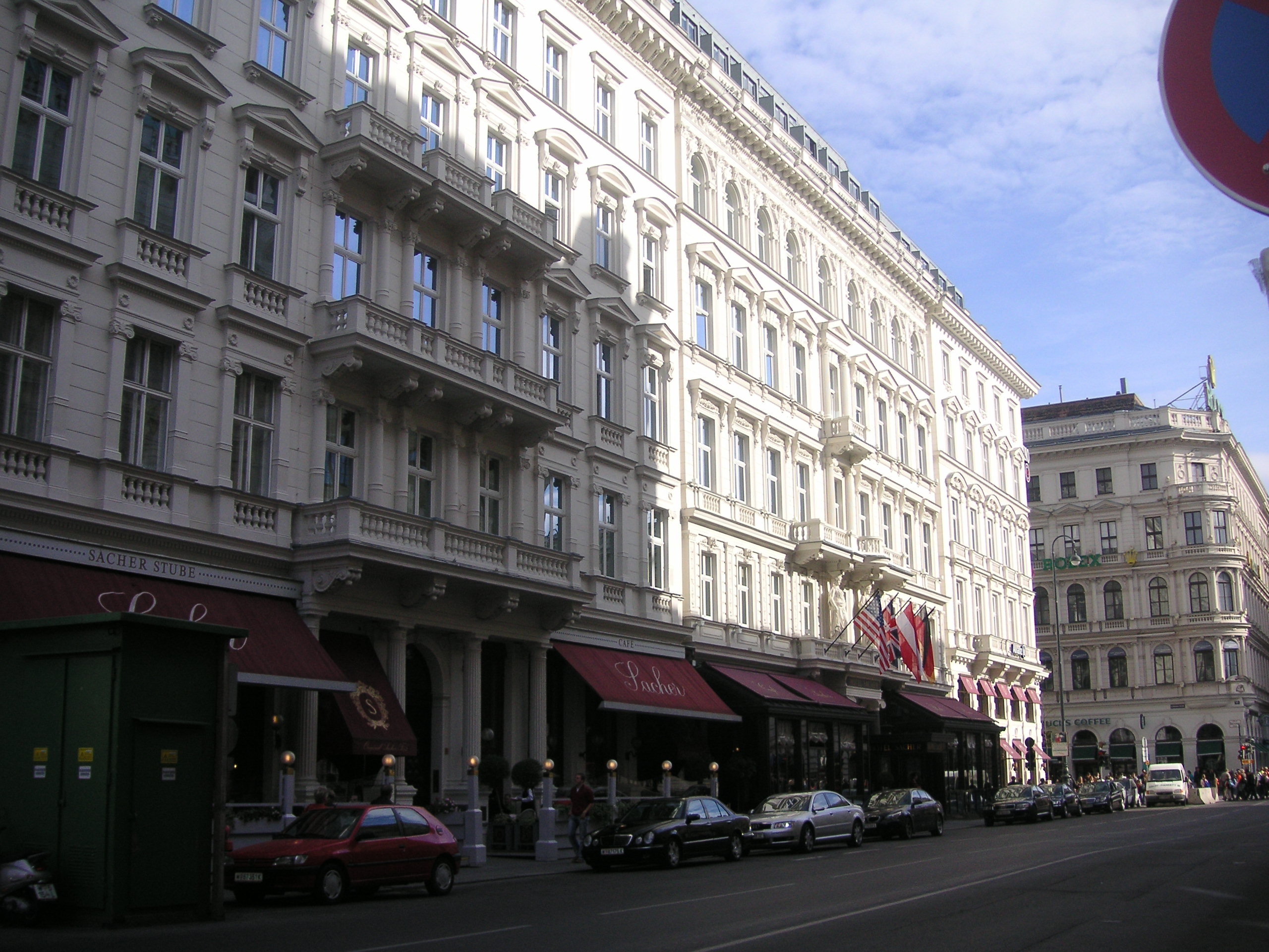 The five-star Hotel Sacher, Innere Stadt, Vienna, Austria, situated next to the Vienna State Opera. Photo by KF, October 26, 2005.